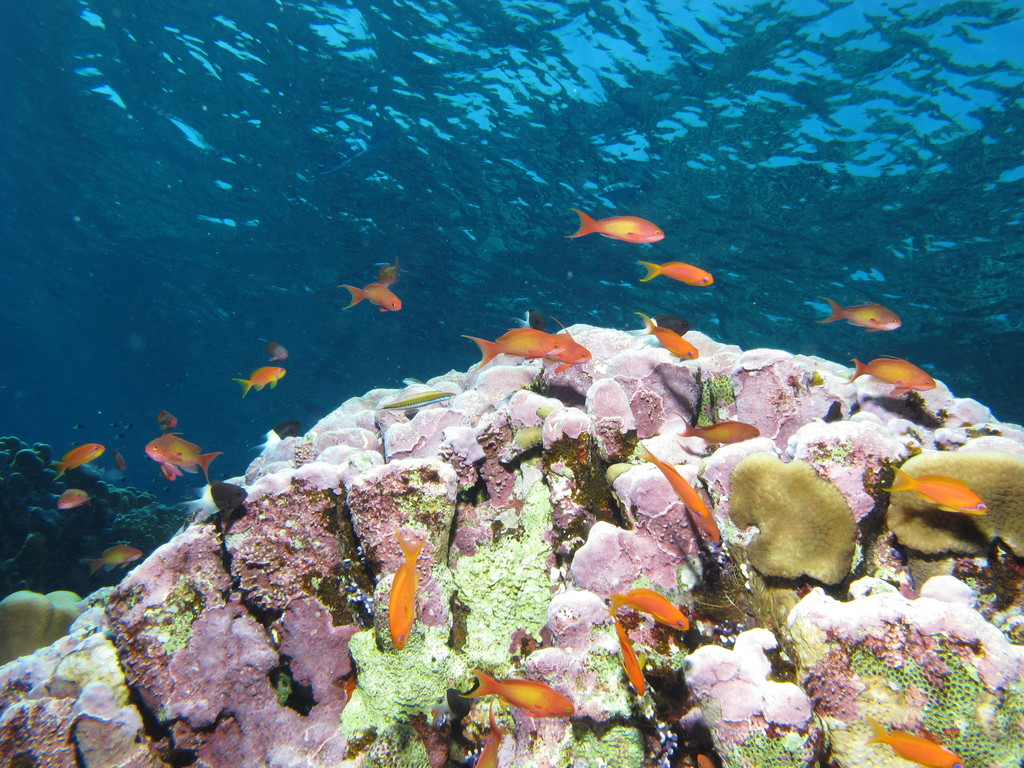 Reef scene with coralline algae (and fish and other stuff)